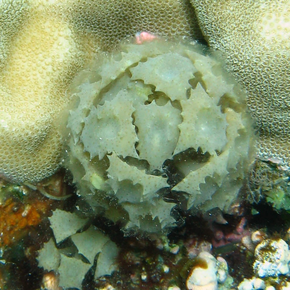 Turbinaria triquetra near Safaga, Red Sea